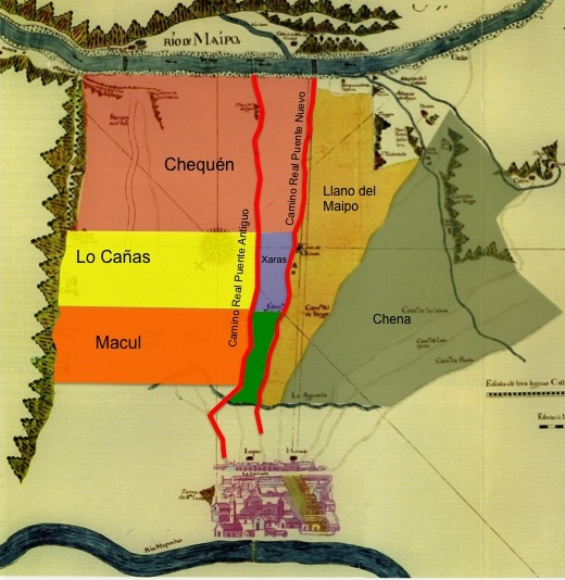 Location in Santiago of Chile of the land of Monte Albernas